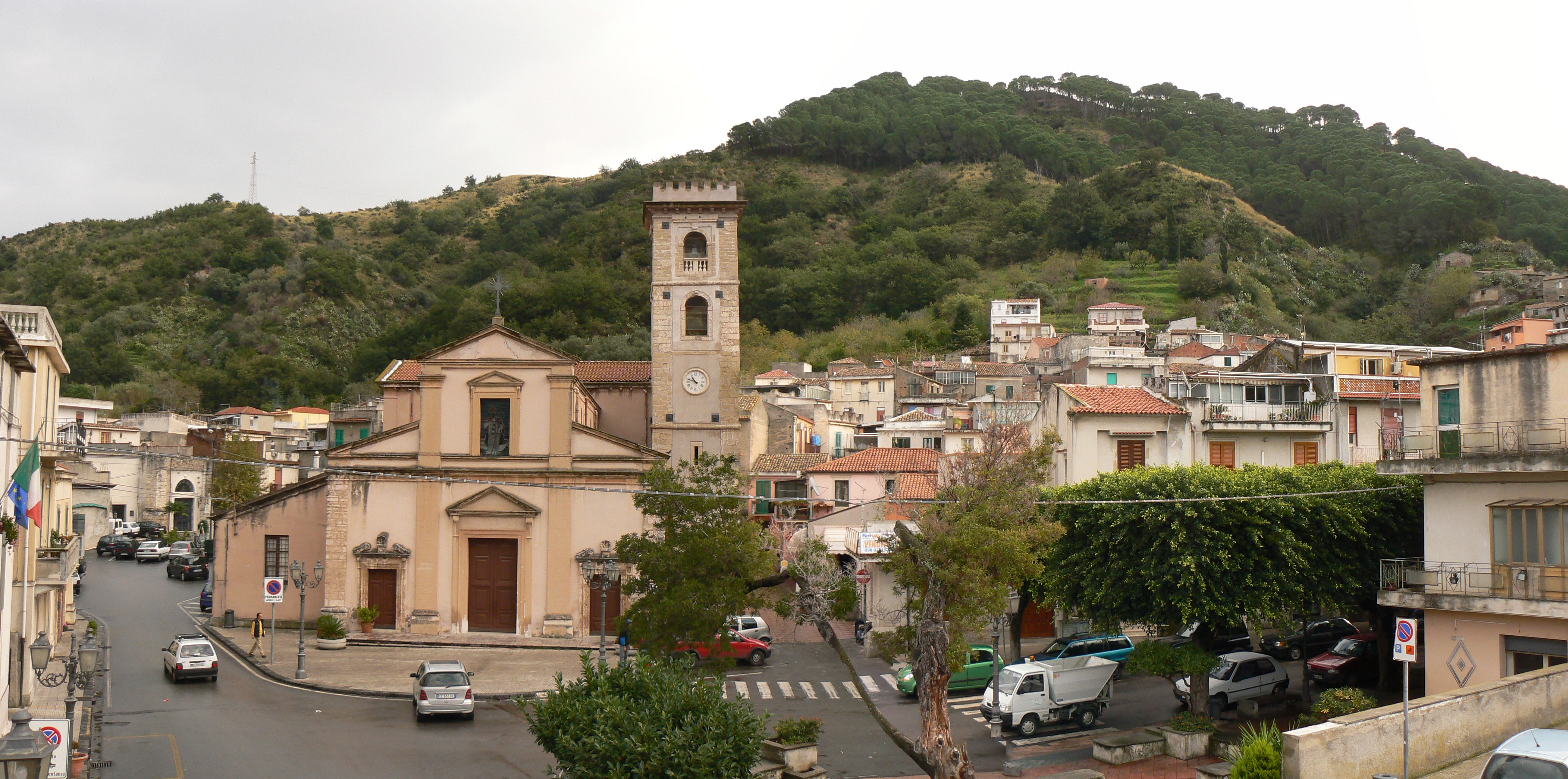 Saponara (ME)